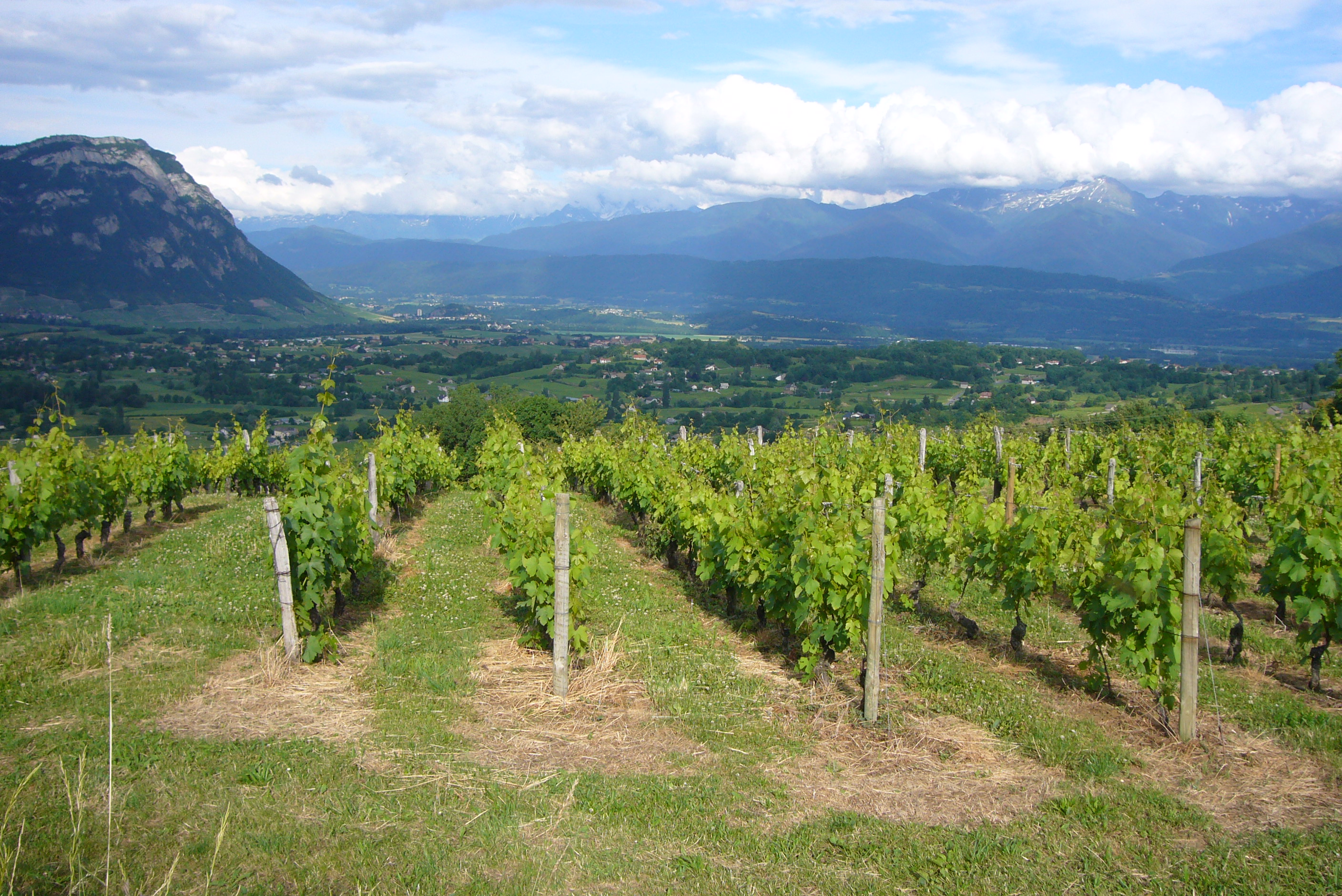 Vineyards in Apremont. View about "Cluse de Chambéry", "Combe de Savoie" valleys and Bauge (at the left) and Belledonne (at the right) mountains.